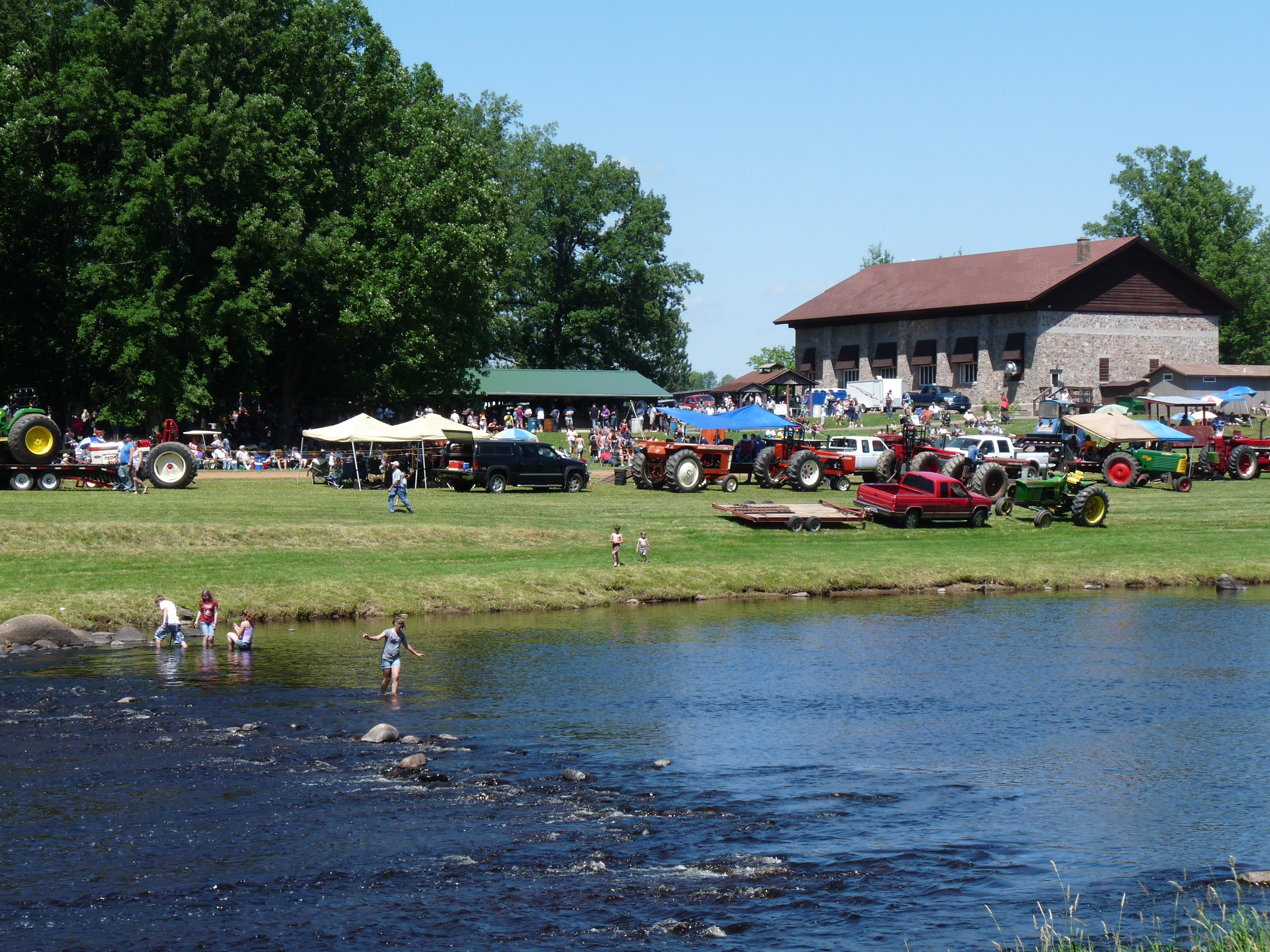 The Fourth of July tractor pull is the big event of the year in Jump River, Wisconsin. The large stone building in the upper right is the Jump River town hall, built by the WPA in 1936.